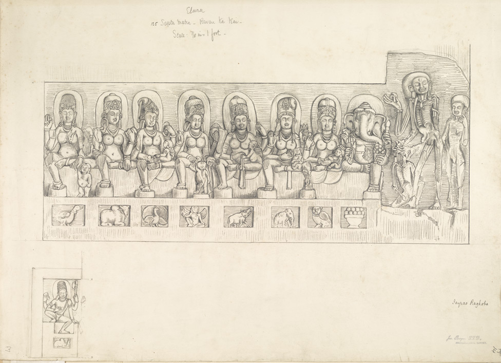 From the source, Ravana ki khai cave, cave XIV, at Ellora from James Burgess' 'Original Drawings [of] Elura Cave Temples Buddhist and Brahmanical.' The spectacular site of Ellora is famous for its series of Hindu, Buddhist and Jain cave temples excavated into the rocky façade of a cliff of basalt. The works were done under the patronage of the Kalachuri, the Chalukya and the Rashtrakuta Hindu dynasties between the 6th and the 9th centuries. The cave known as Ravana-ki Khai is a single-storeyed excavation dating from the 7th century and consists of a square columned mandapa and a verandah. The facade has lost several of its piers revealing the large pillared hall behind. Large figural panels of Shaivite sculptures decorate the south wall and Vaishnava images ornate the north wall.